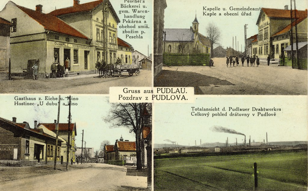 Postcard